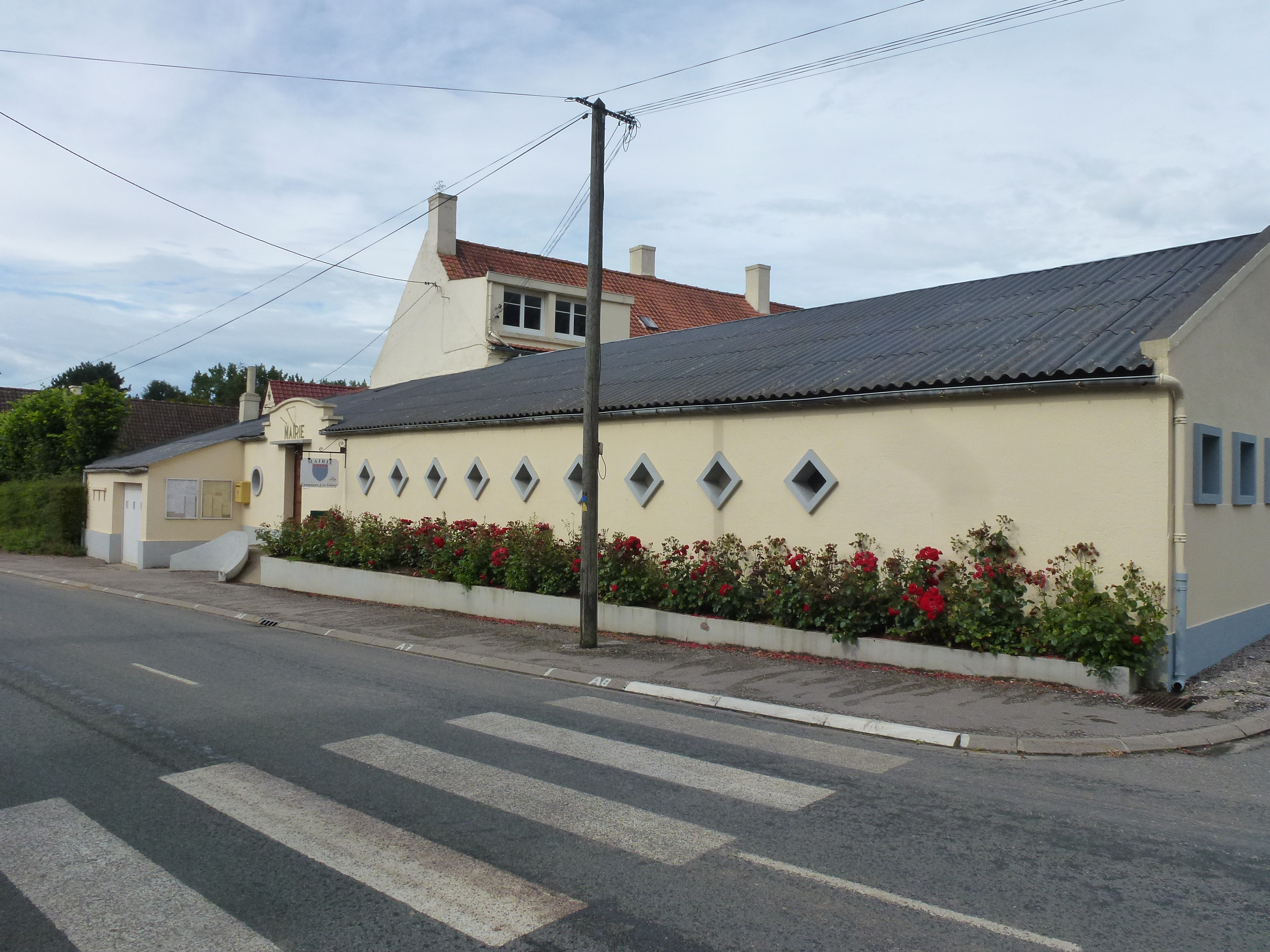 Campagne-lès-Guines (Pas-de-Calais) mairie